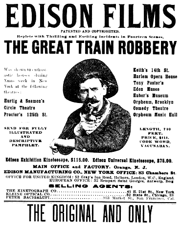 Newspaper advertisement for Edwin S. Porter's film The Great Train Robbery (Edison Manufacturing Company, 1903).